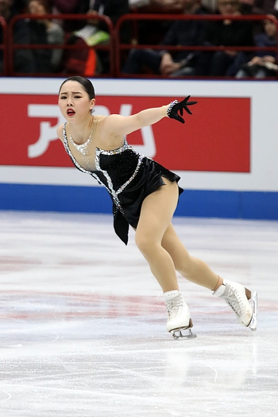 Photos – World Championships 2018 – Ladies (Wakaba HIGUCHI JPN – Silver Medal)